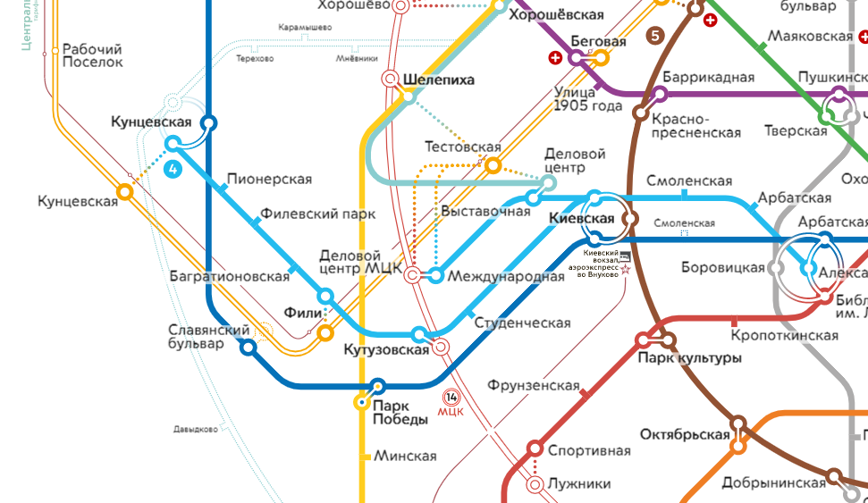 Example of using light blue (голубой) and dark blue (синий) colors on the official metro map